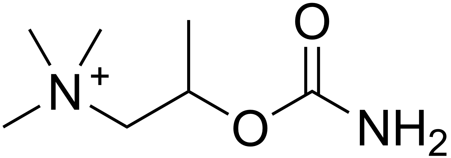 chemical structure of bethanechol